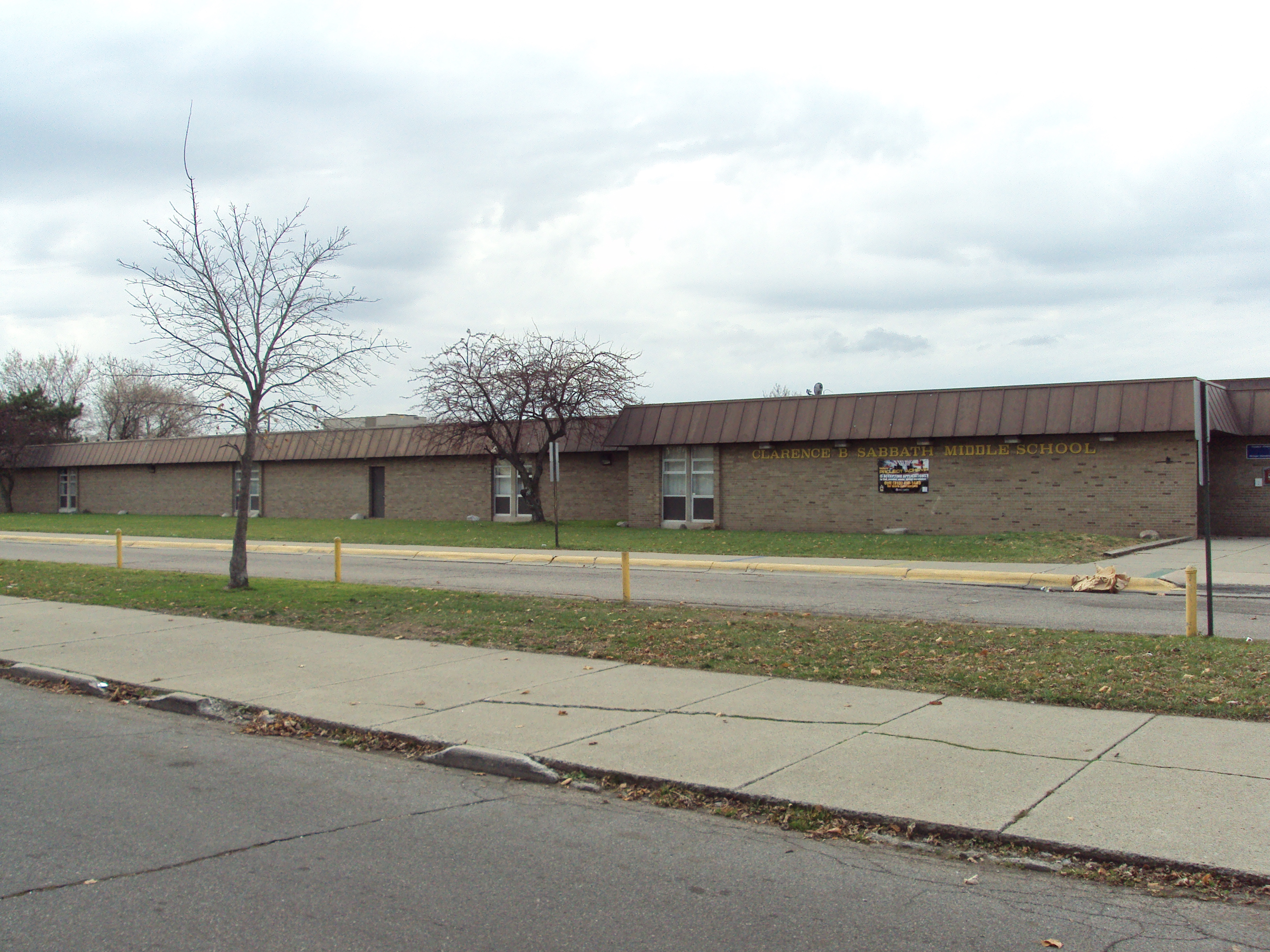 Clarence B. Sabbath Middle School (Michigan)